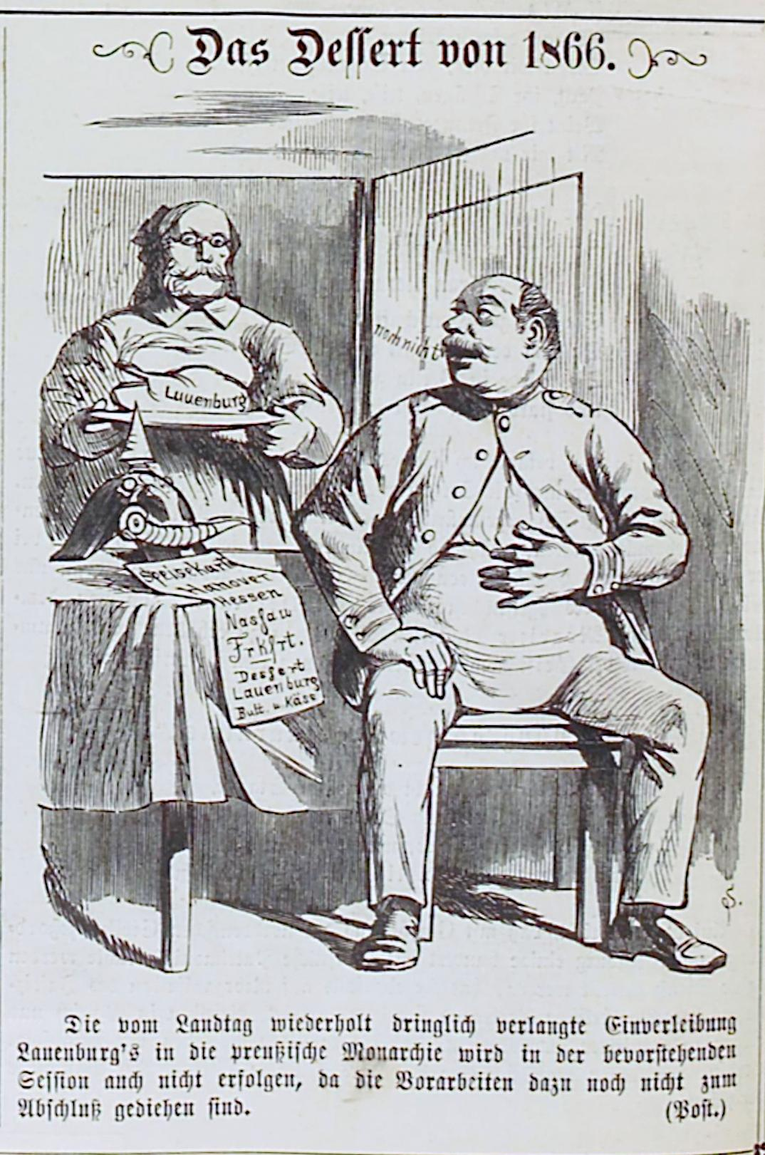 Karikatur, Kladderadatsch.